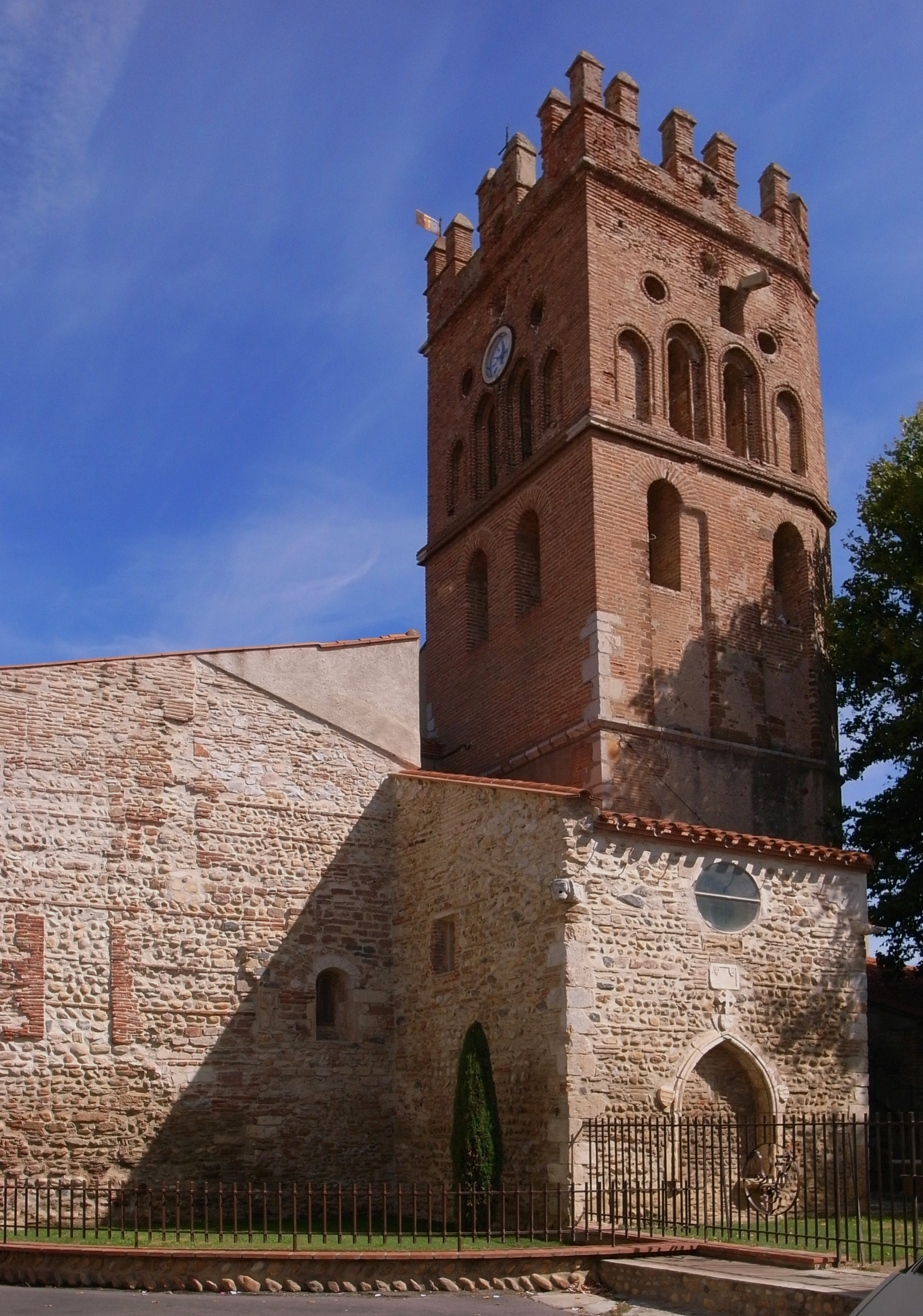 The church of Saint Vincent in Claira, in the Pyrénées-Orientales département, in southwestern France. Transformed to improve perspective distortion.